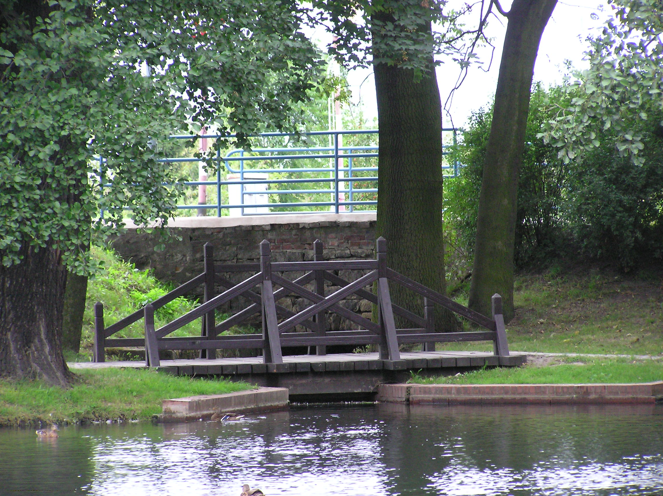 Poland, Wrocław, Brochowski Park, Brochówka River, pond in park, Footbridge, Bridge - Centralna Street